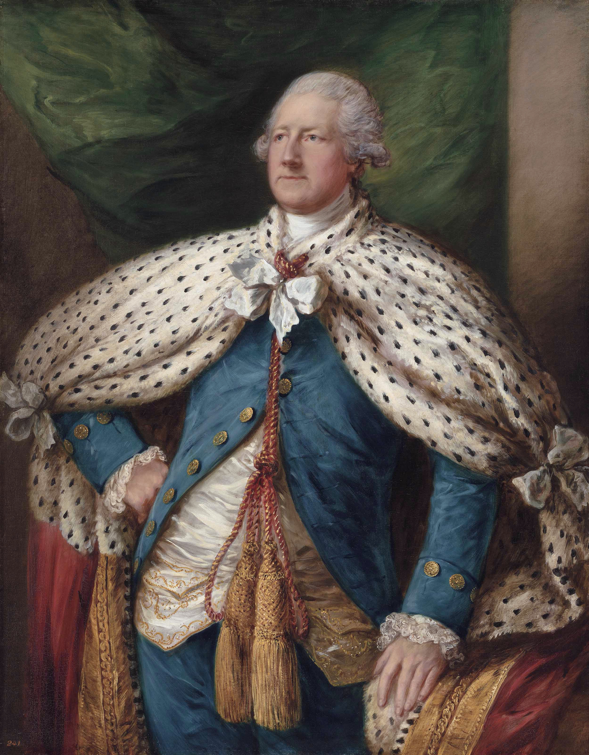 John, 2nd Earl of Buckinghamshire (1723-1793) oil on canvas 127.3 x 99.7 cm